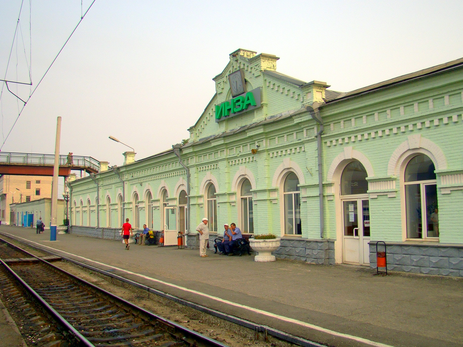 Railway station Inza (Ulyanovsk Region).